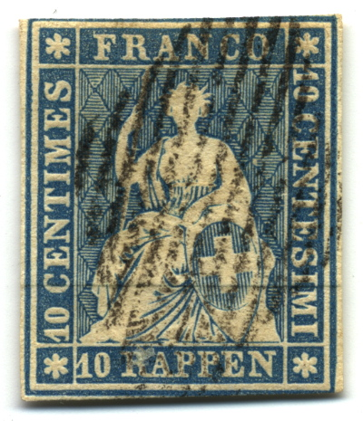 Switzerland 10-rappen stamp of 1854. The horizontal silk wire is well visible.